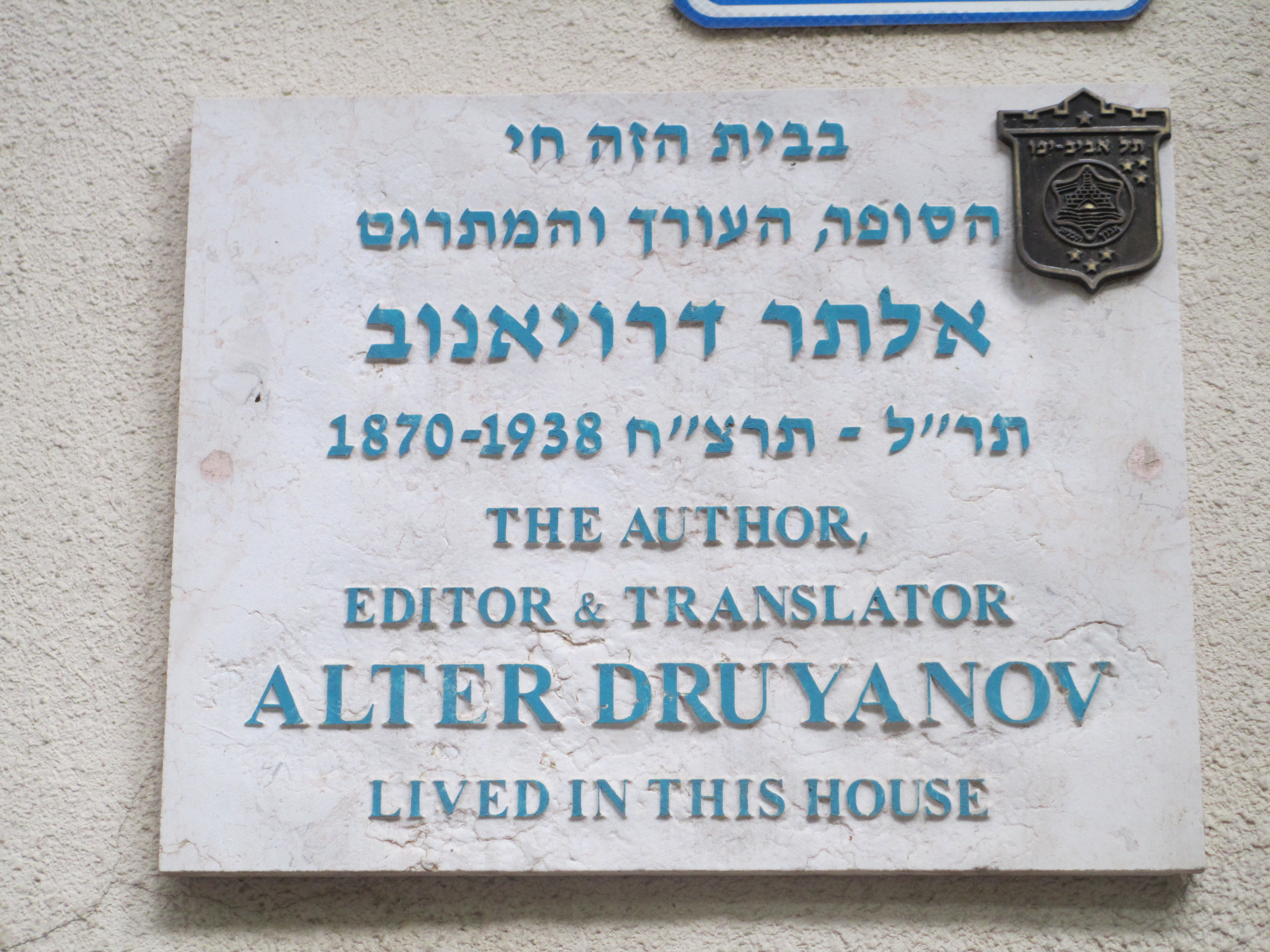 Memorial plaque on the house of the author Alter Druyanov in Tel Aviv